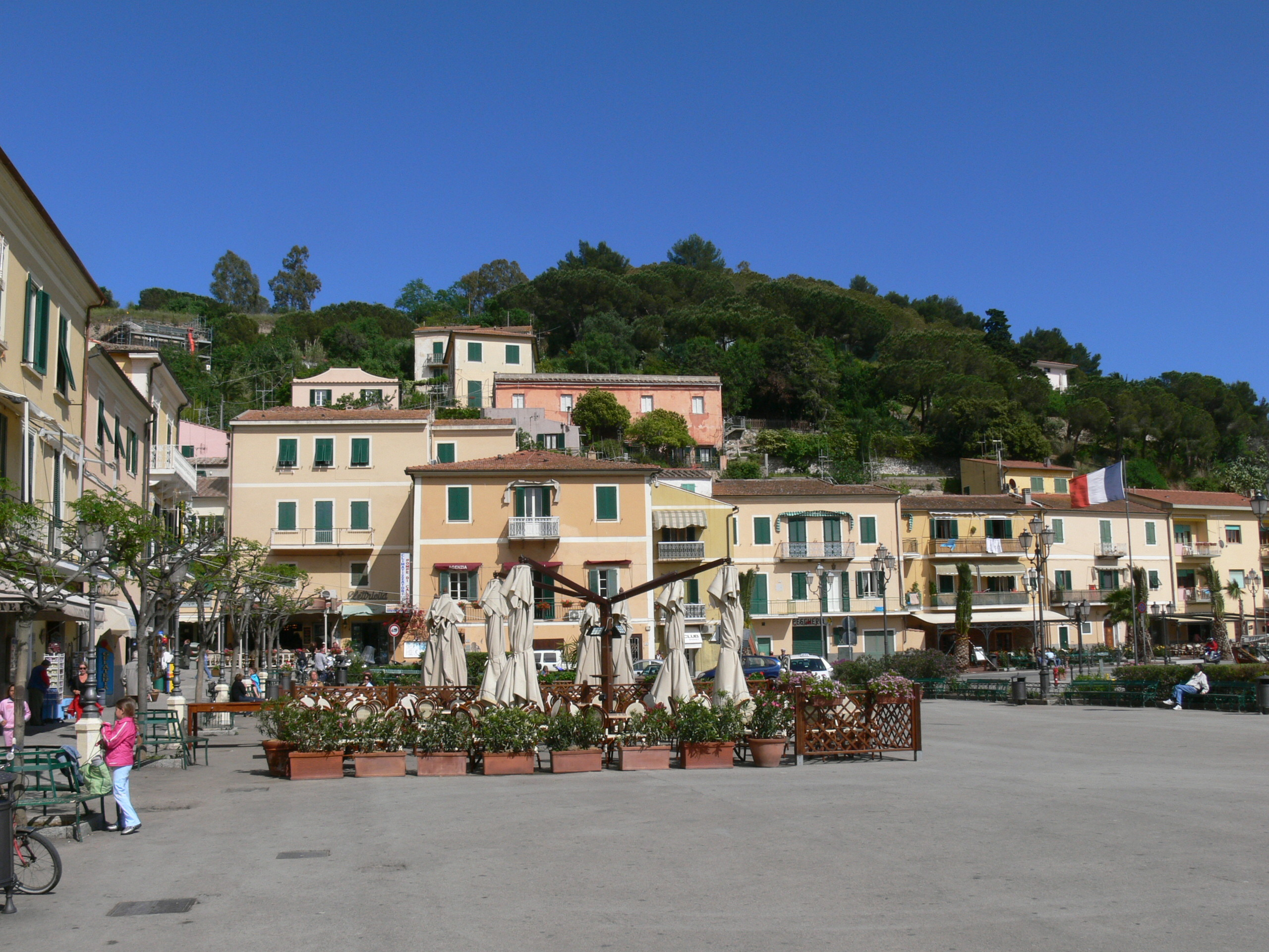 Elba. Porto Azurro: Piazza near the harbour